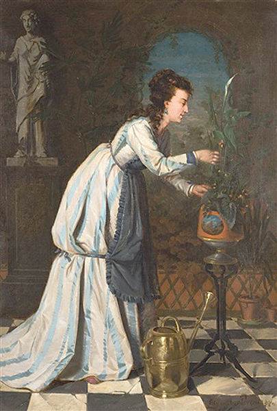 Arranging flowers (1870) - oil painting on panel by Agapit Stevens (1848-1924)